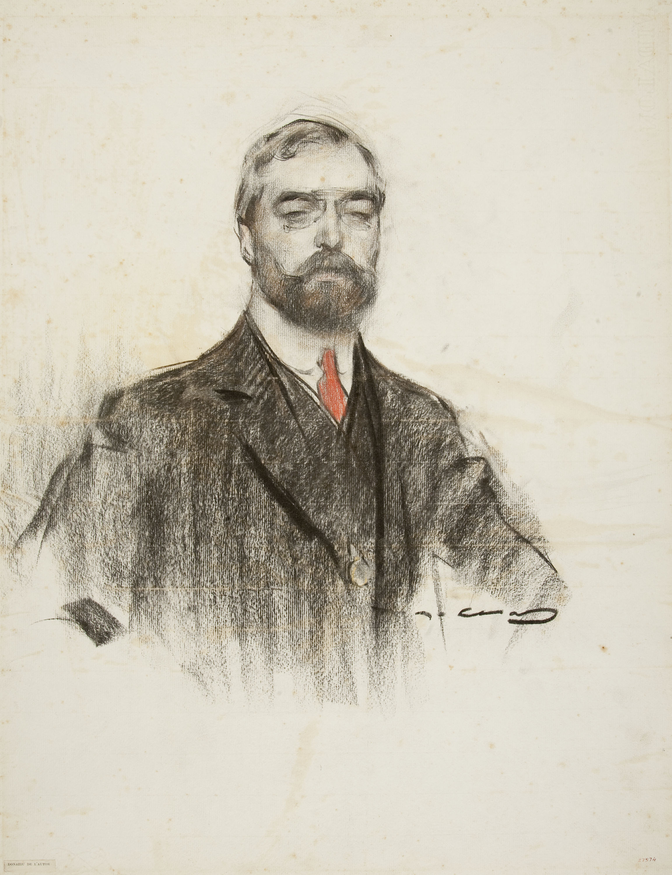 Portrait by Ramon Casas conserved at MNAC in Barcelona.